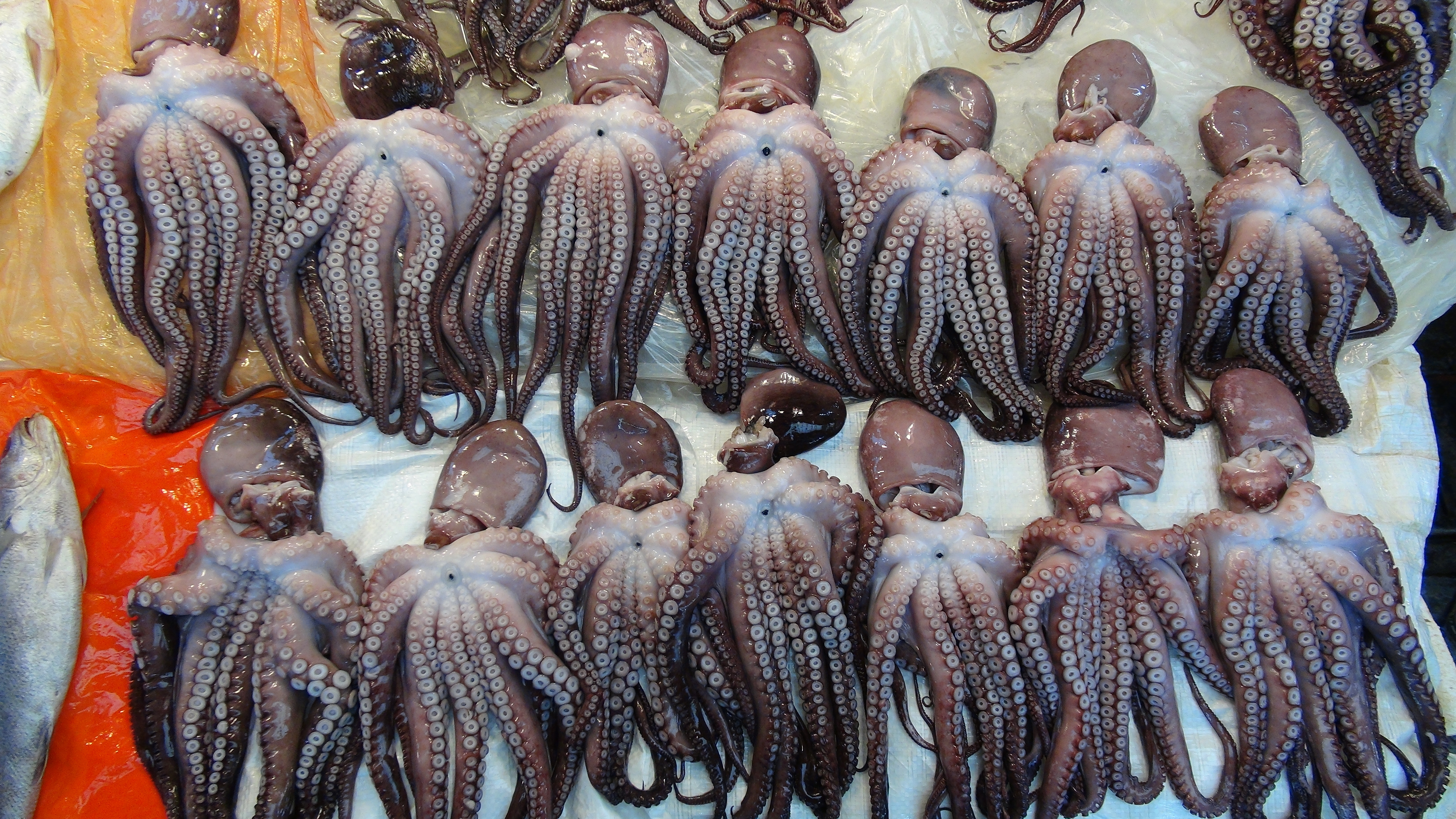 long arm octopus (Octopus minor) in a traditional market in South Korea